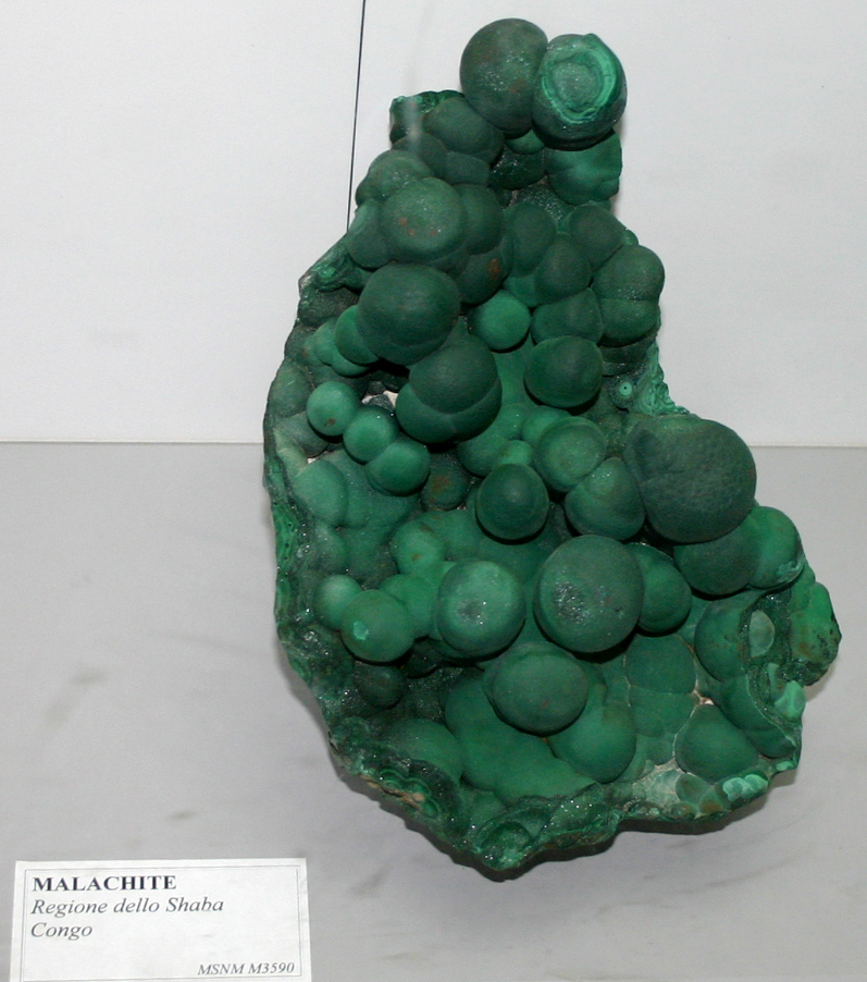 The National history museum in Milan, Italy. Malachite. Picture by Giovanni Dall'Orto, April 22 2007.